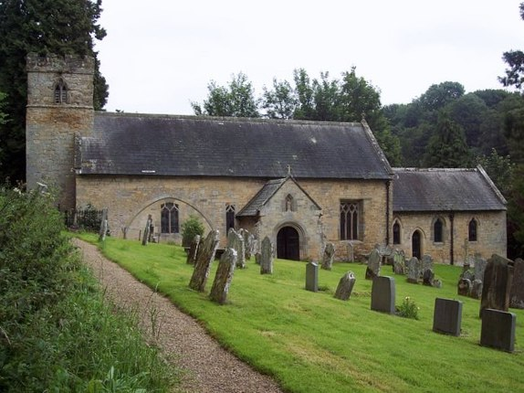 St Mary the Virgin, Ebberston The church stands near to Ebberston Hall.